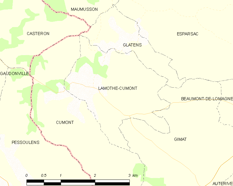 Map of French municipality Lamothe-Cumont